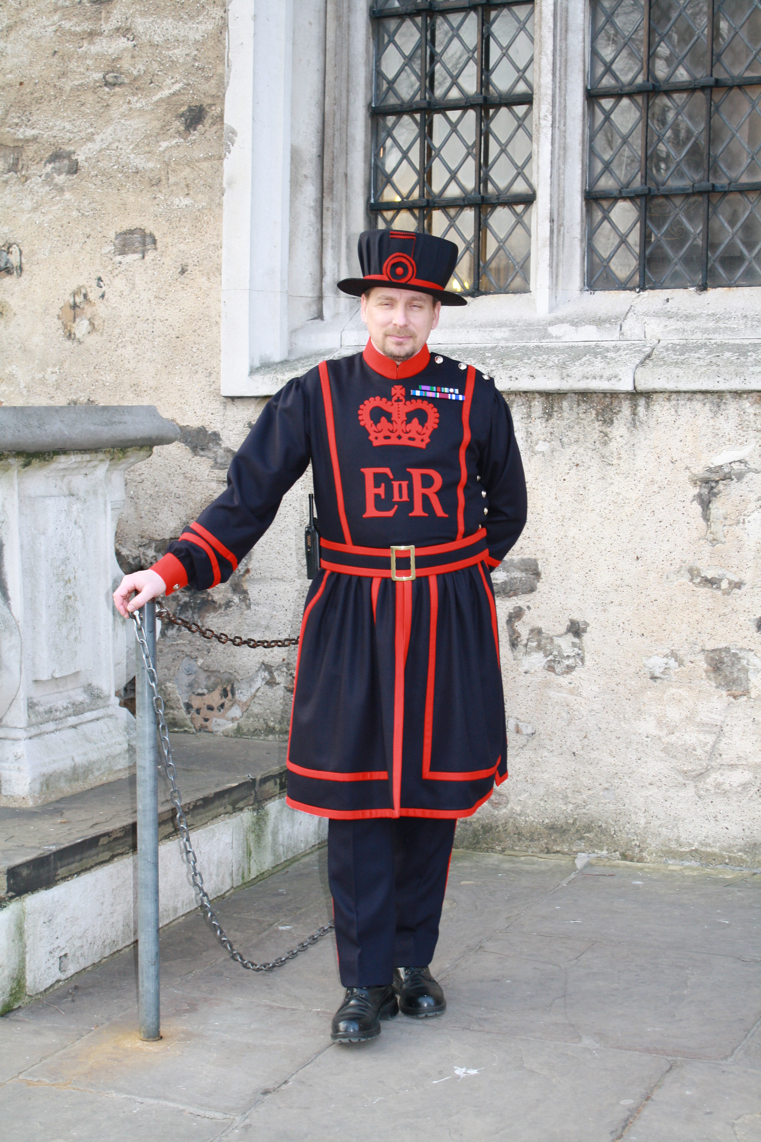 Yeoman Warder (commonly known as a Beefeater) at the Tower of London, England. (commonly known as a Beefeater) at the Tower of London, England.